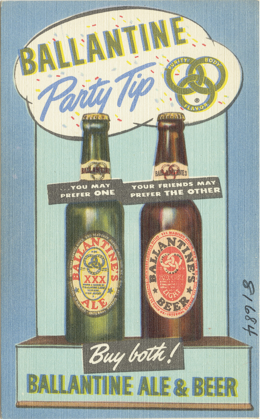 File name: 06_10_012395 Title: Ballantine party tip. . . you may prefer one, your friends may prefer the other, buy both! Ballantine Ale & Beer Date issued: 1930 - 1945 (approximate) Physical description: 1 print (postcard) : linen texture, color ; 5 1/2 x 3 1/2 in. Genre: Postcards Notes: Title from item. Collection: The Tichnor Brothers Collection Location: Boston Public Library, Print Department Rights: No known restrictions